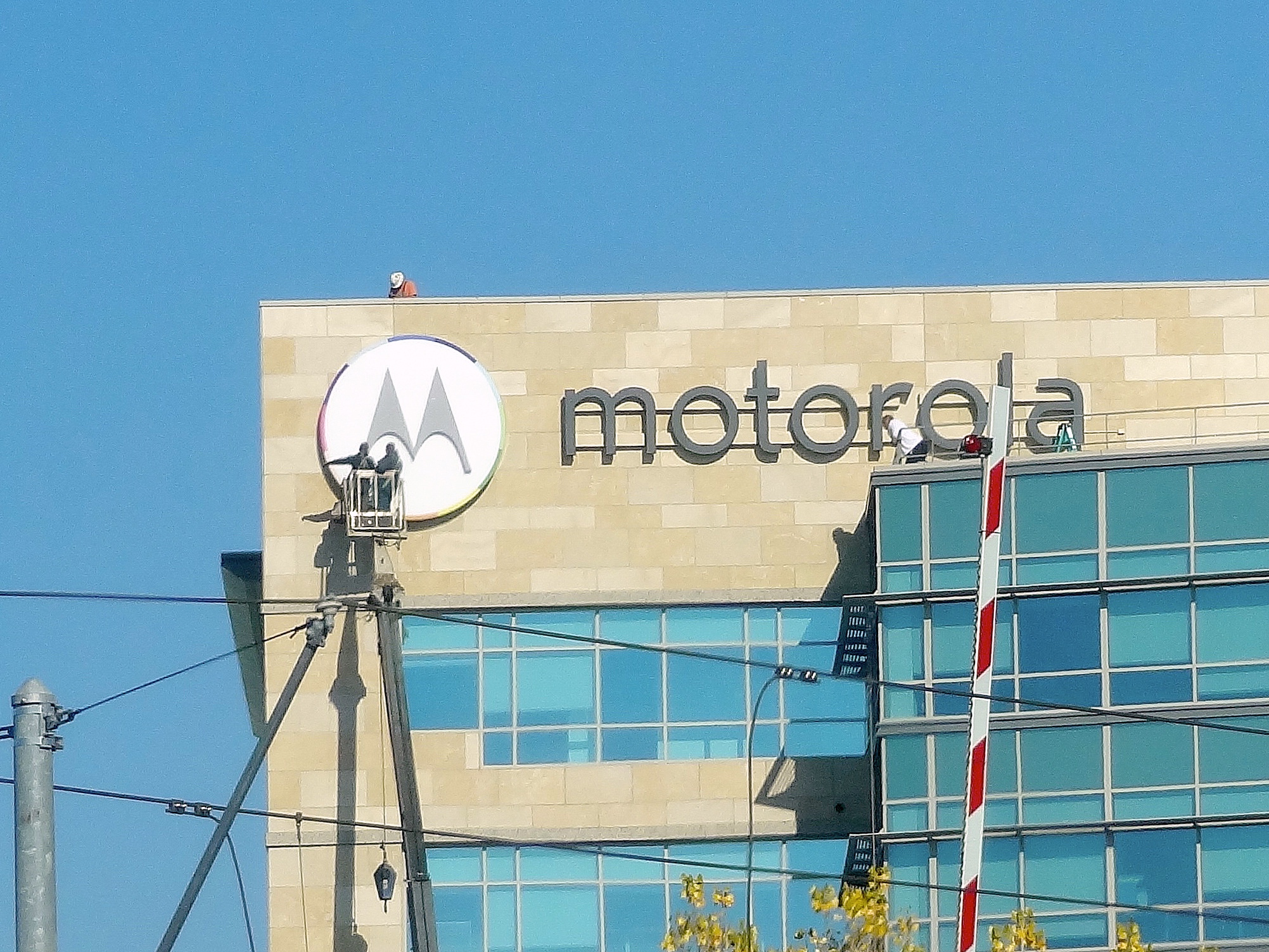 Google installing a new Motorola Mobility logo near main Google campus. Motorola Mobility was sold 48 days later to Lenovo.